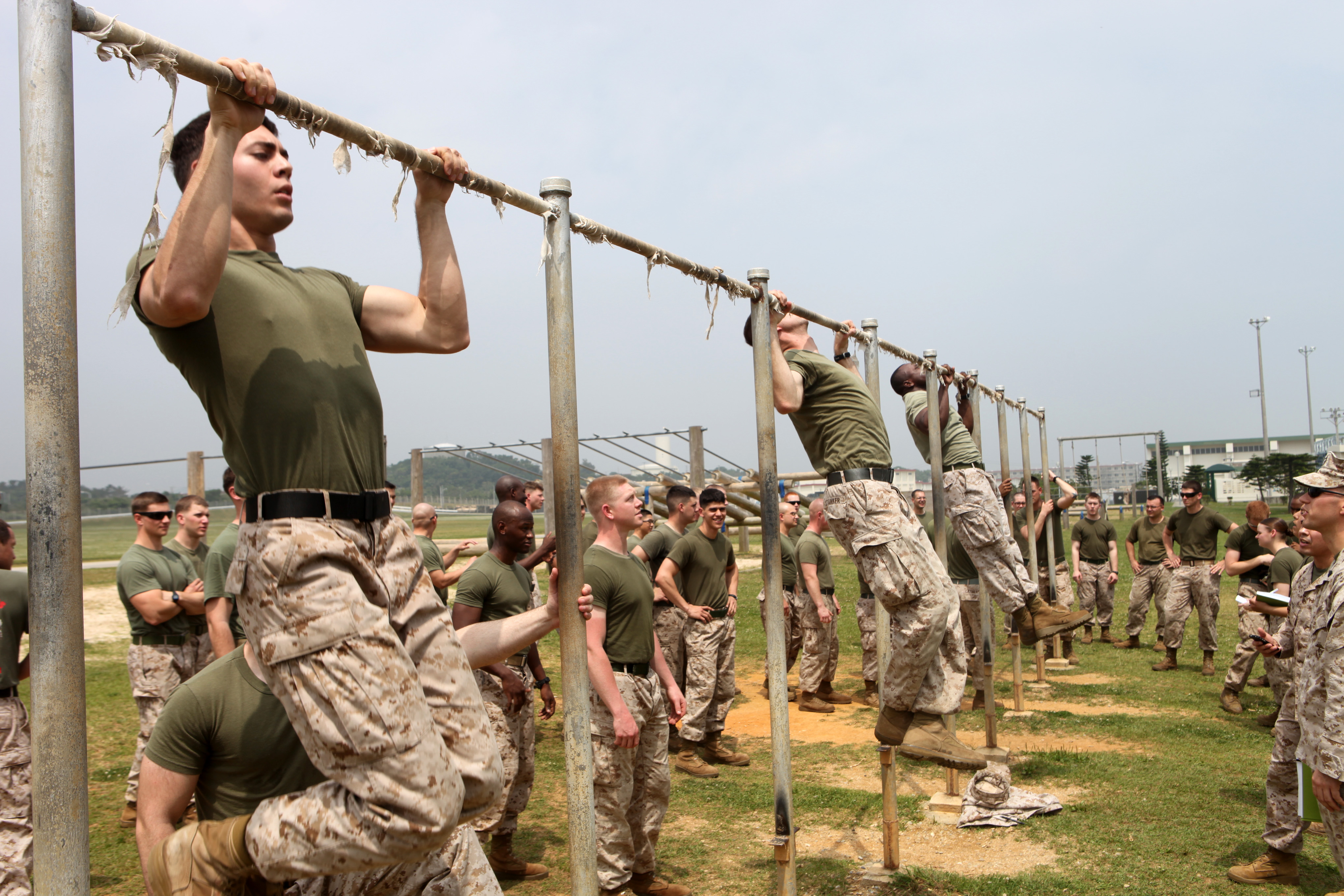 Marines with Command Element, 31st Marine Expeditionary Unit, participate in a team chin-up competition here, April 12 (the exercise being done on the image is a pullup). The event was part of a unit field meet, pitting Marine against Marine in five different events designed to enhance unit morale. The 31st MEU is the only continuously forward-deployed MEU and is the nation's force in readiness in the Asia-Pacific region.